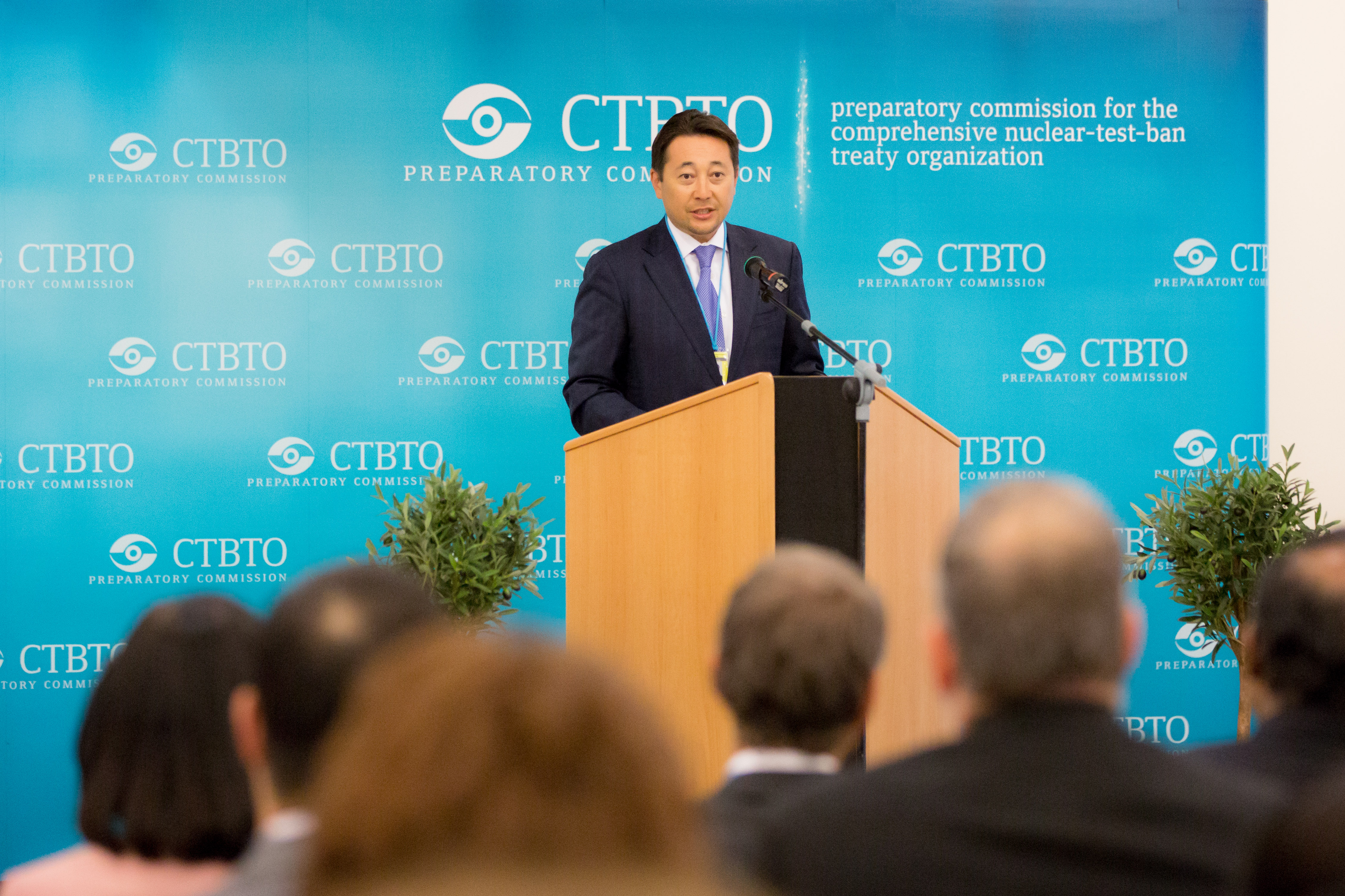 HE Kairat Sarybay, the Ambassador of the Republic of Kazakhstan to the Republic of Austria and Permanent Representative to the International Organizations in Vienna, giving a speech at the International Day against Nuclear Tests 2014, in Vienna, Austria. Kazakhstan Atom Project and Doug Waterfield ‘Doomtown’ series artwork in exhibition Vienna International Centre, Austria, 29 August 2014